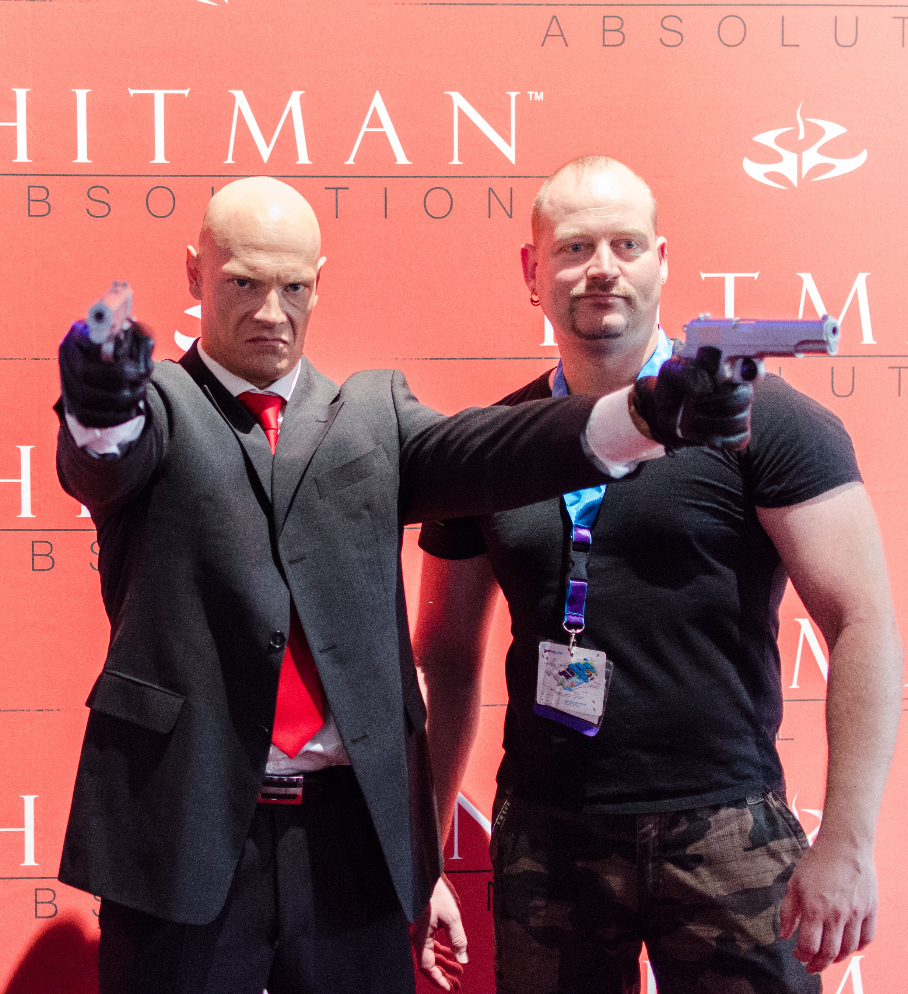 Model posing with fan as Agent 47 (Hitman) at Gamecom 2012